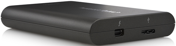 Thunderbolt Drive+ sideview 01